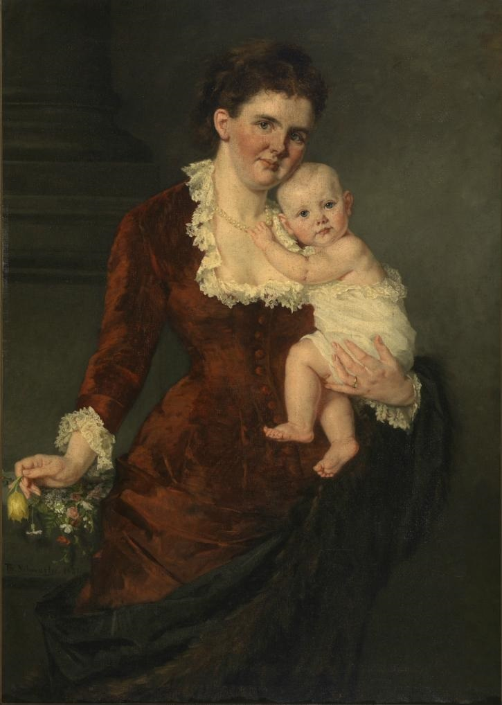 Queen Emma with Princess Wilhelmina on her arm